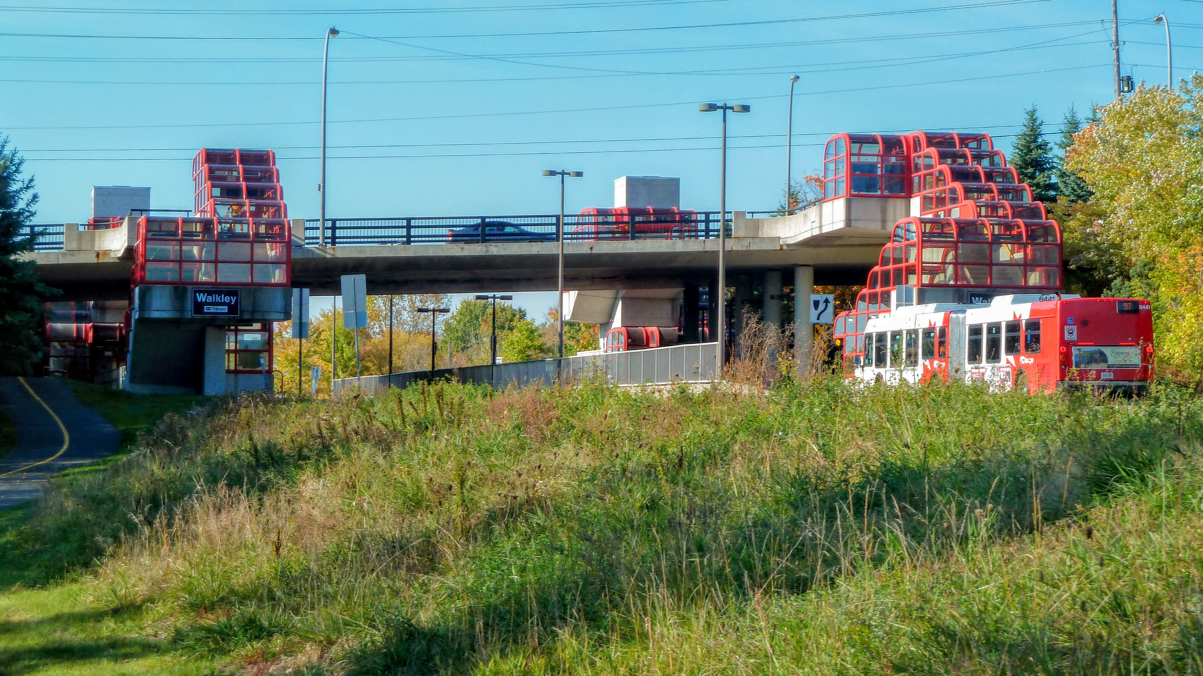 OC Transpo's Walkley Station in Ottawa, as seen from a bike path